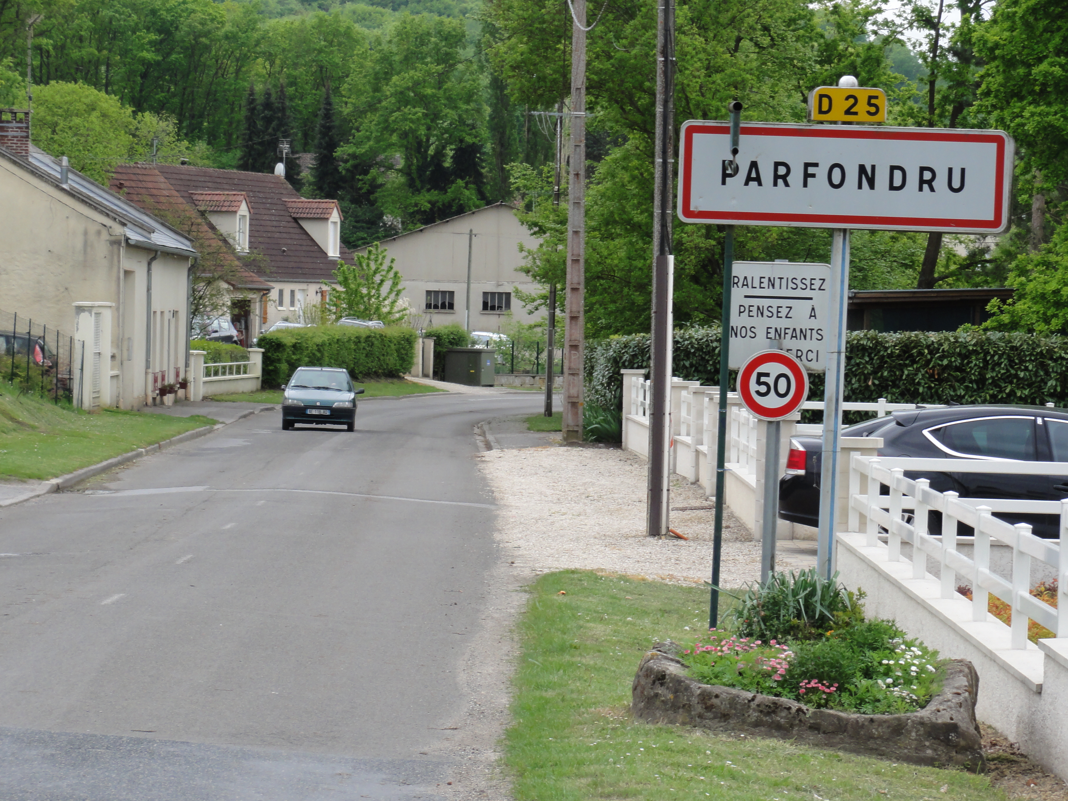 Parfondru (Aisne) city limit sign